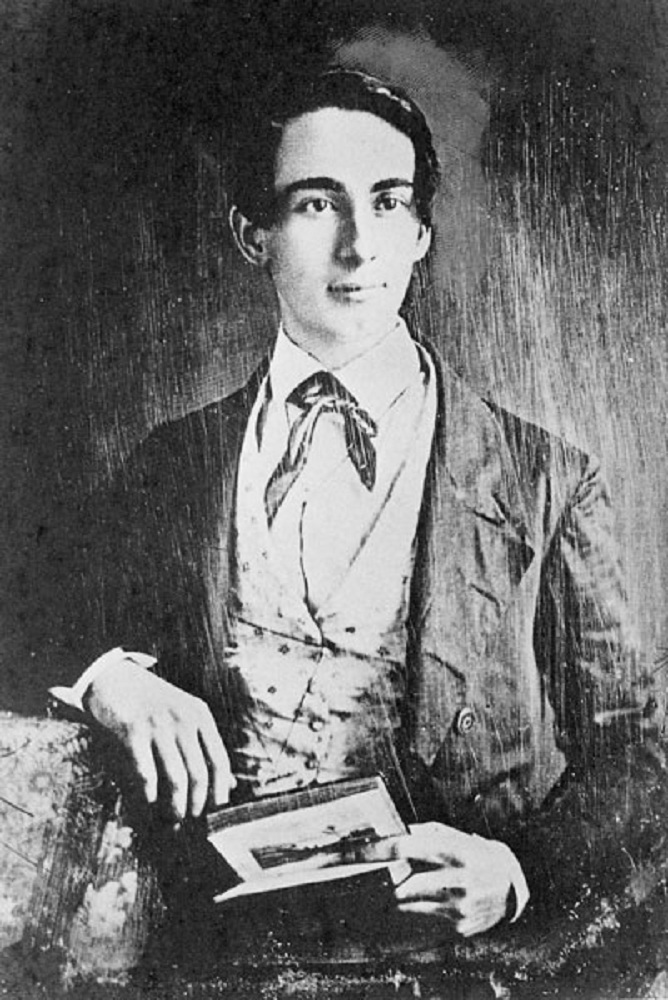 Henry Martyn Whitney (1824–1904) was an early journalist in the Kingdom of Hawaii. Born of early missionaries, he became the first postmaster and founded several long-lasting newspapers.